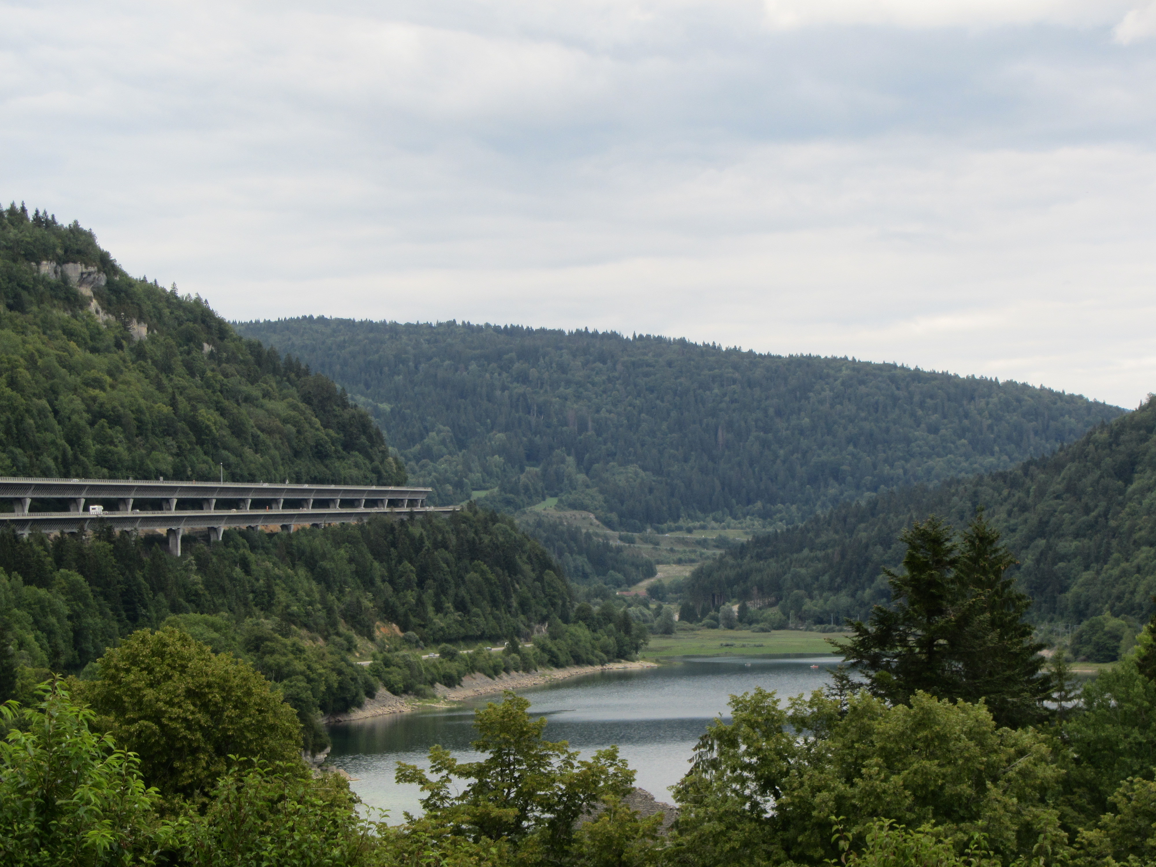 The viaduct above the Lac de Sylans, part of the Autoroute Blanche